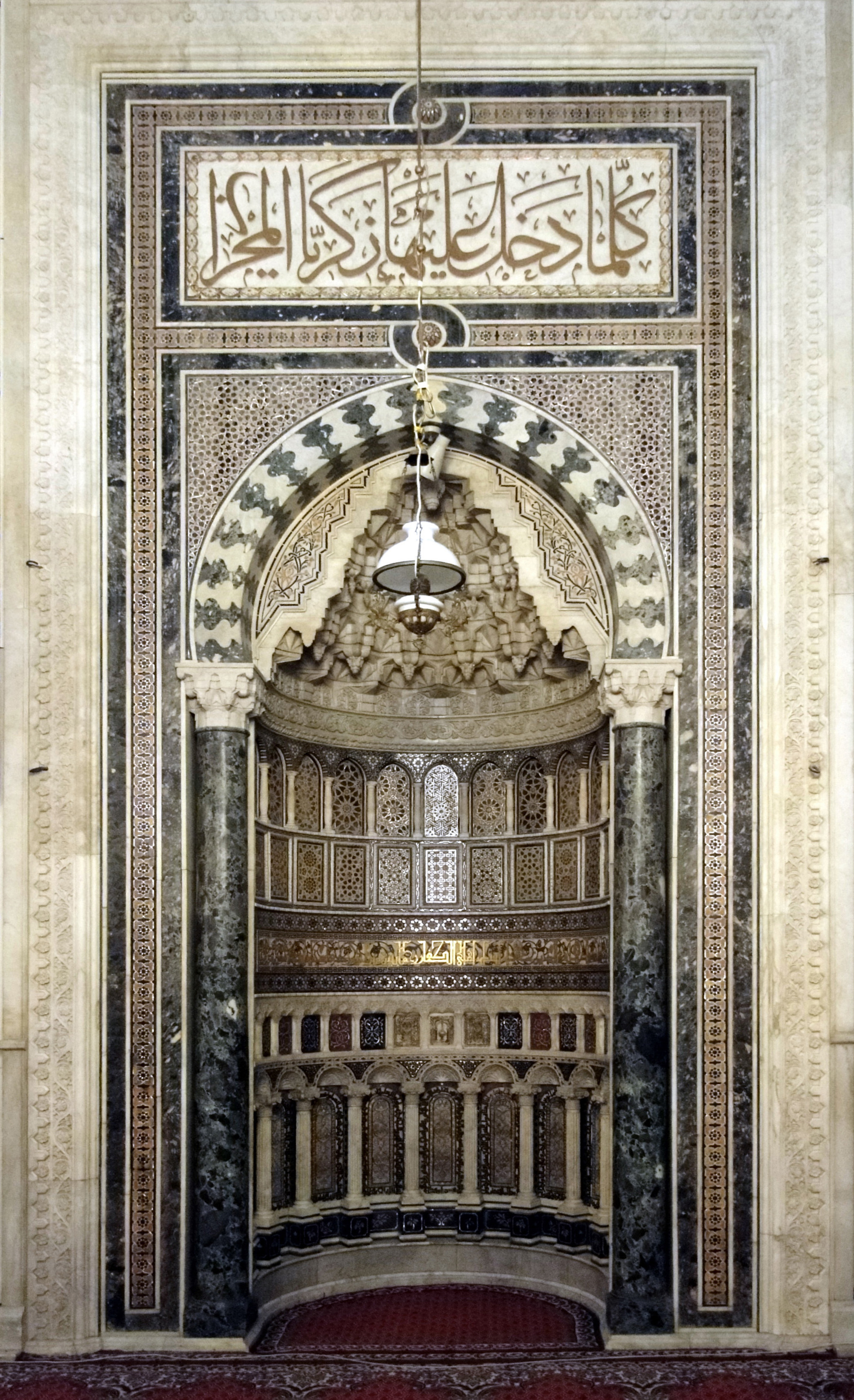 Main mihrab of the Umayyad Mosque, Damascus, Syria